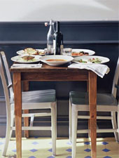 The Kitchen restaurant dining room